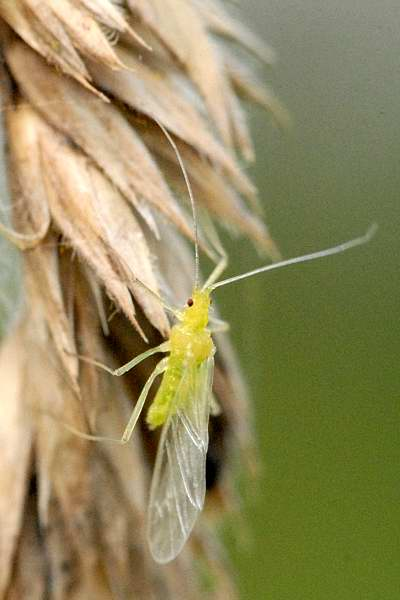 Hyalopteroides humilis from Commanster, Belgian High Ardennes .